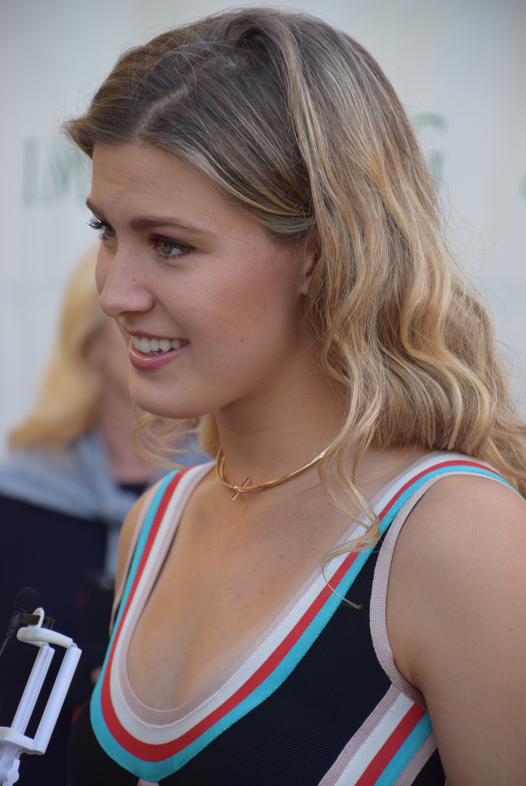 Eugenie Bouchard, Australian Open Players' Party